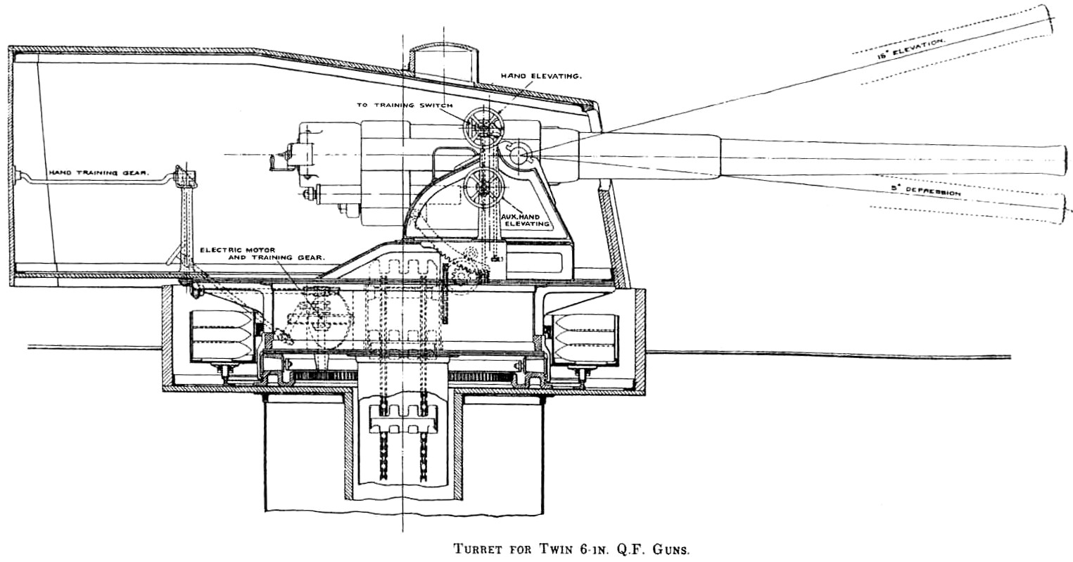 Diagram showing right elevation of British BL 6 inch Mk VII naval gun, as mounted in twin turret for Monmouth class armoured cruisers. Note that "QF" in the diagram title refers to "Quick Firing" in the international sense i.e. a modern gun capable of rapid reloading, it does not imply that the gun uses a cartridge case.